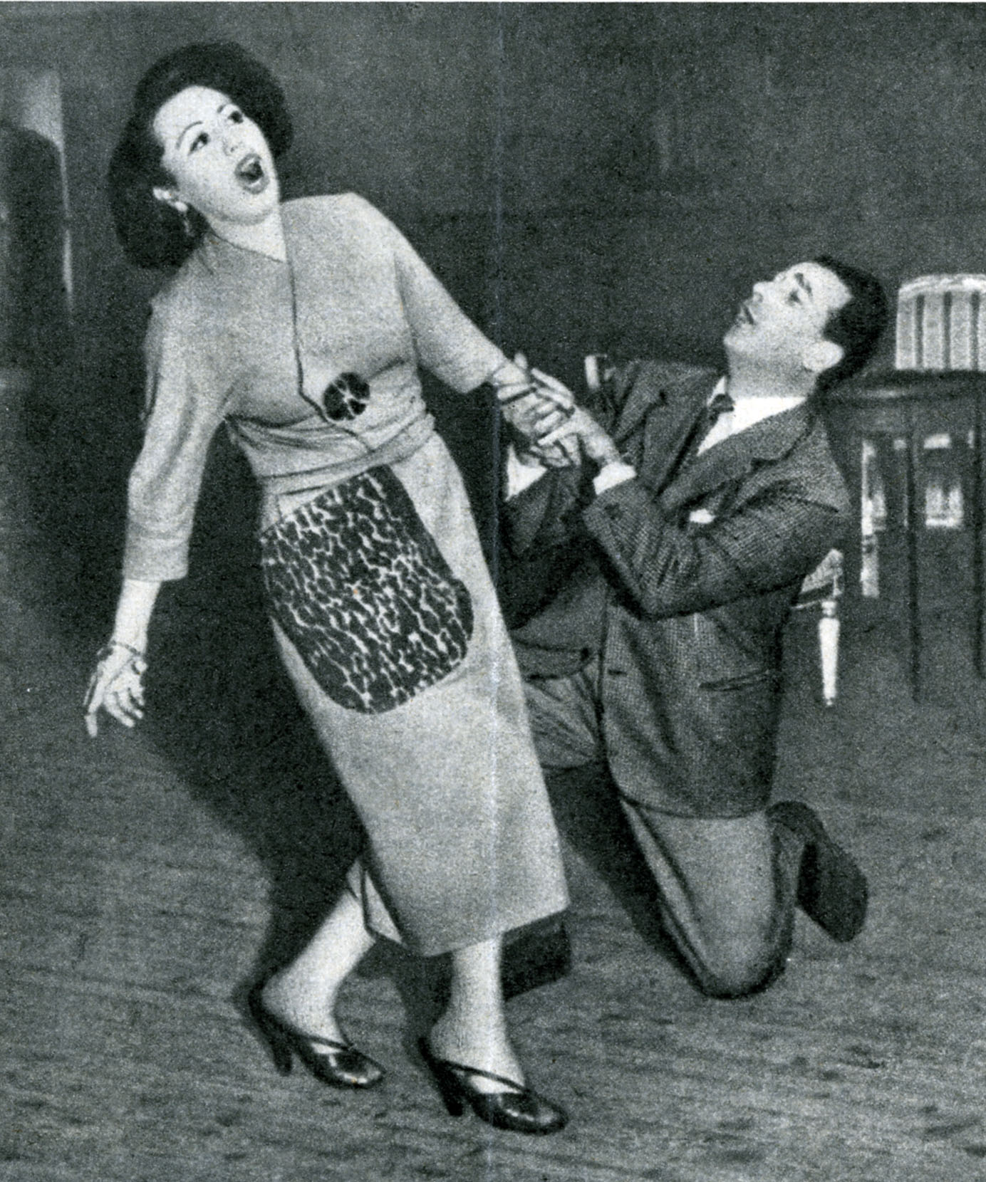 photo from Radiocorriere (1956)